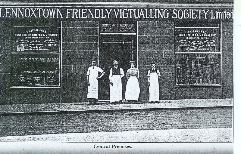 Lennoxtown Friendly Victualling Society In the drive towards democratization, a co-operative society was established in 1812, the Lennoxtown Friendly Victualling Society. The purpose of this society was to provide the necessities of life at the cheapest and easiest terms available. The membership fee was 1s and 6d (1/6), and each member was issued with a personal number to claim dividends. Customers were urged to follow the wise example of the pioneers and join up! The society, which also had branches in Milton and Torrance was wound up in 1965, and its engagements were transferred to the Kirkintilloch Equitable Society.